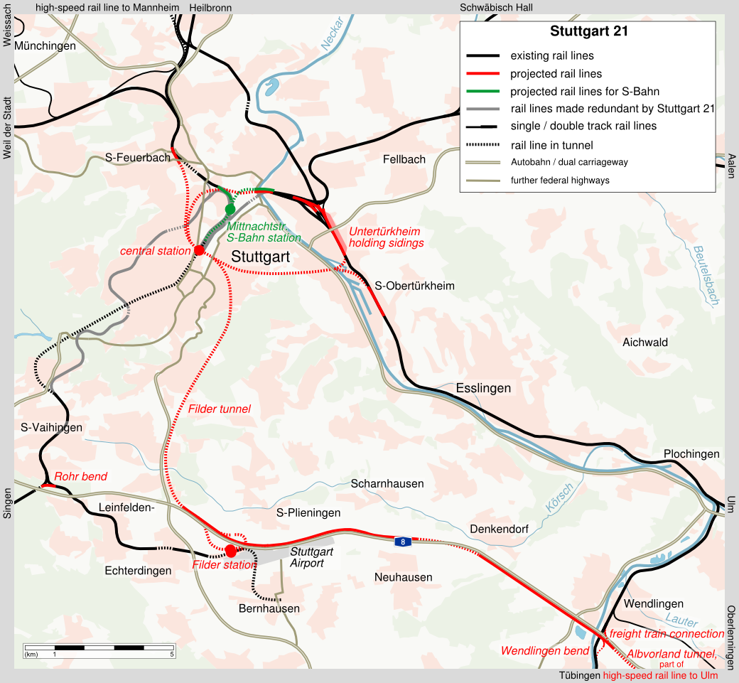 map of project Stuttgart 21 (english labeling).